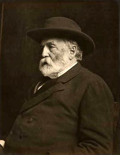 Collis P. Huntington; Gelatin silver print